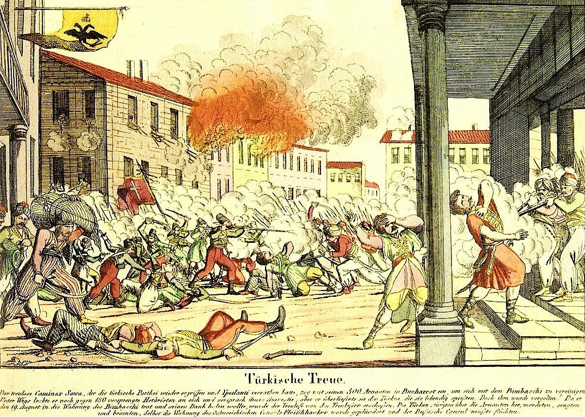 Terminating Sava chief and his etherists brothers, and sacking the Bucharest City by the Turks in 7/19 august 1821. History of Bucharest: "The Greek War of Independence and the contemporary Wallachian uprising brought Bucharest under the brief rule of the pandur leader Tudor Vladimirescu (March 21, 1821), and was then occupied by the Filiki Eteria forces of Major General Ypsilantis - before seeing the violent Ottoman reprisals (ending in a massacre during August, one which made over 800 victims)". The end of the uprising in Bucharest. Fighting between the Ottoman and Eterists in Bucharest. Fighting between the Philikí Etaireía and Ottomans in Bucharest, late 1821.